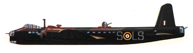 Short Sterling